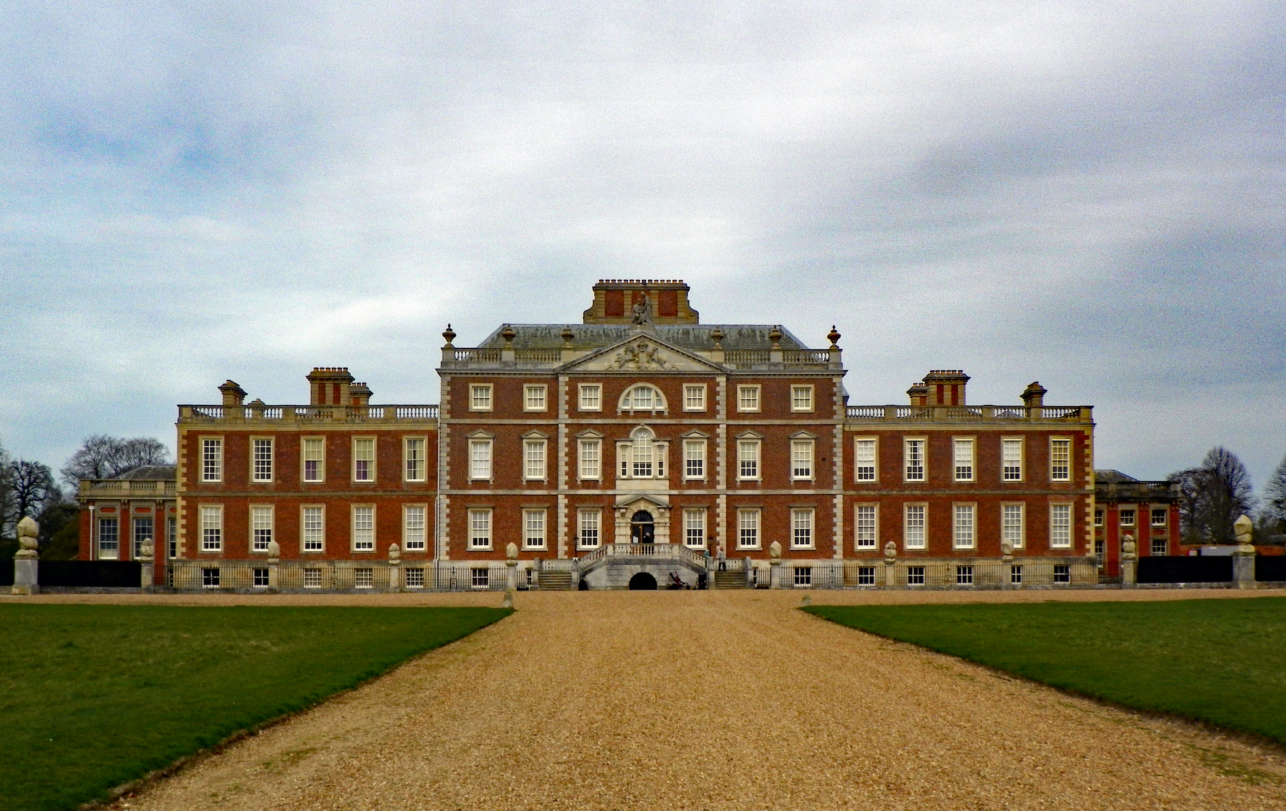 WIMPOLE HALL Wikidata has entry Q17528175 with data related to this building.